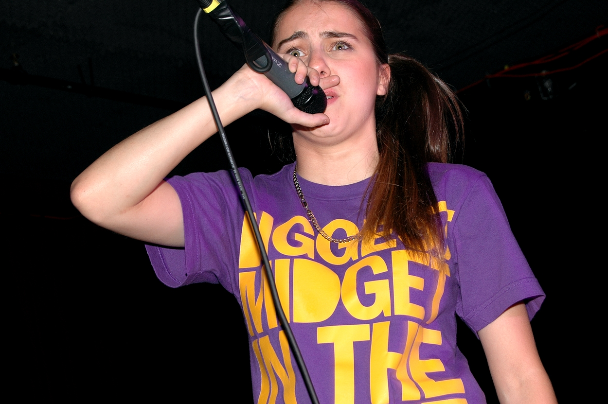 Lady Sovereign @ Studio B (259 Banker St.) in Brooklyn, NY